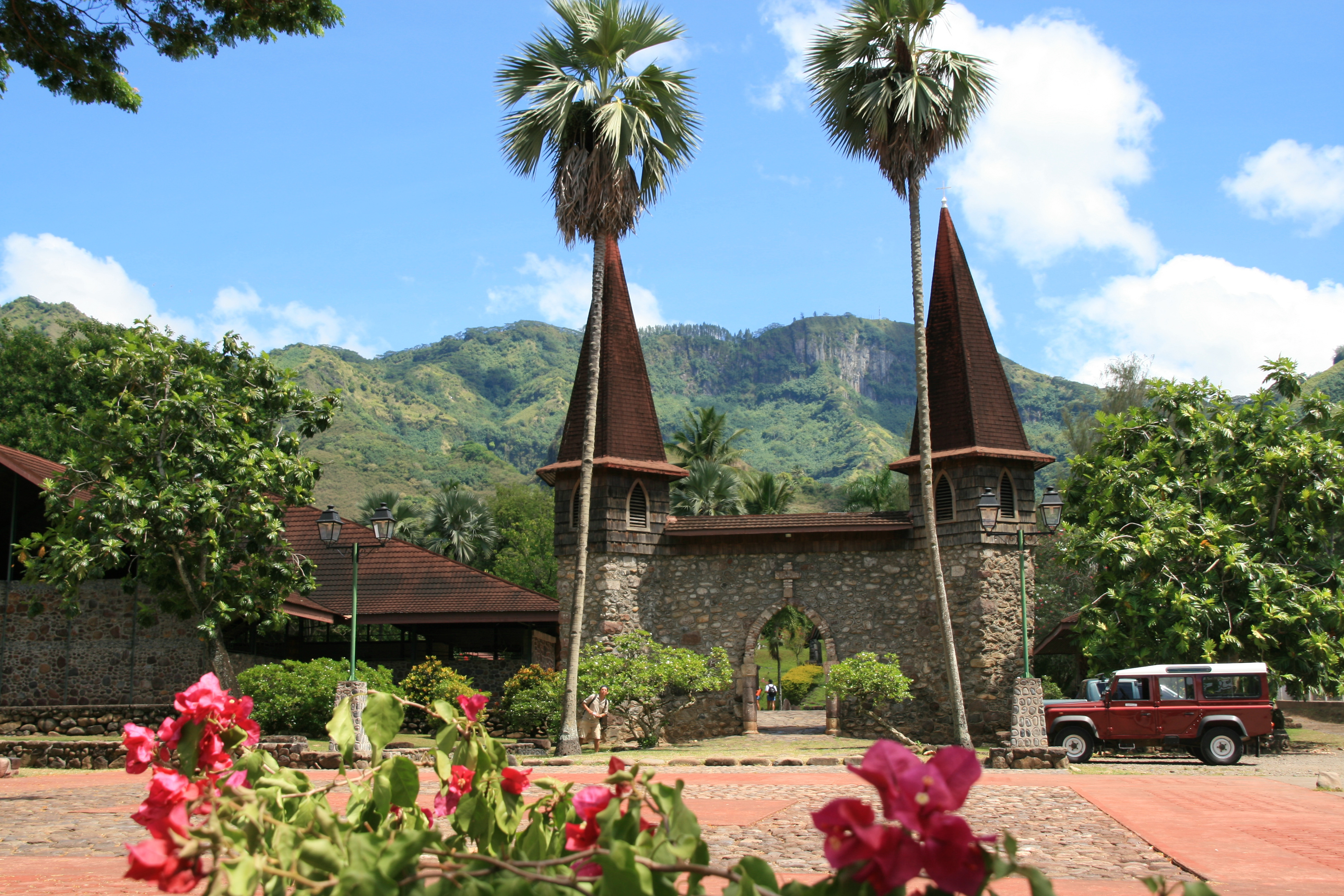 Cathedral Notre-Dame de Taiohae (or Notre-Dame des Marquises), in the village of Taiohae, Nuku-Hiva, Marquesas Islands, French Polynesia.